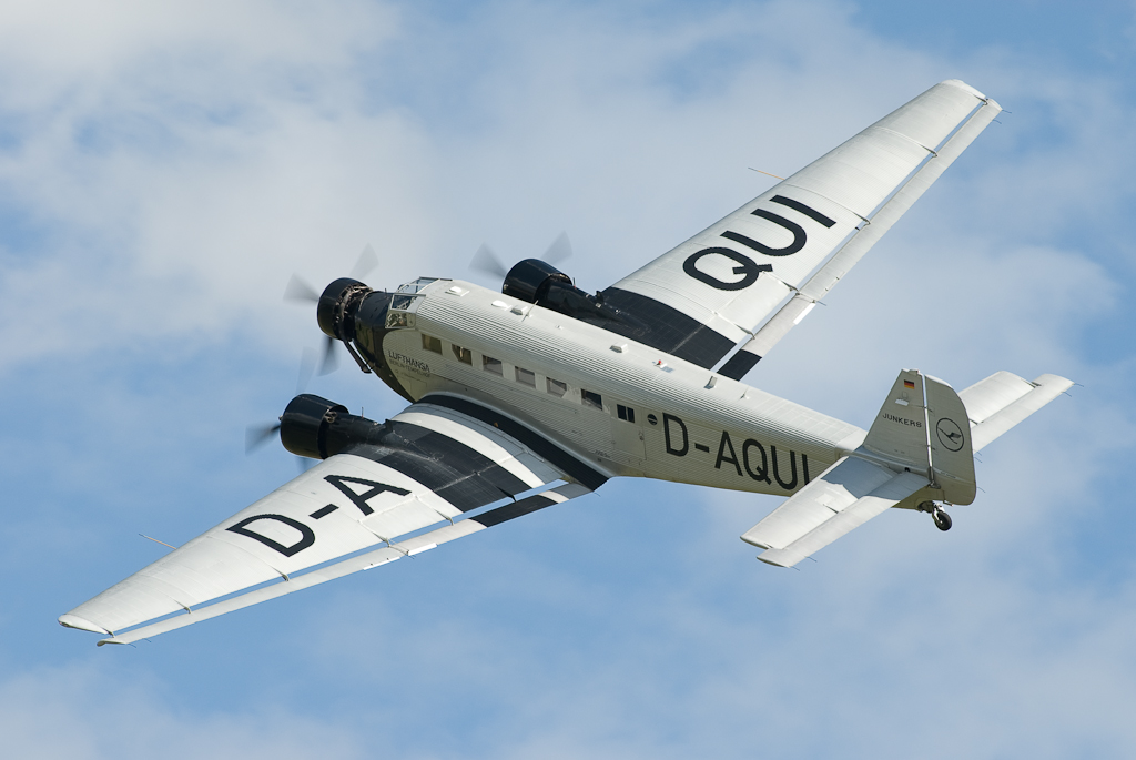 Flying Legends, Duxford, UK